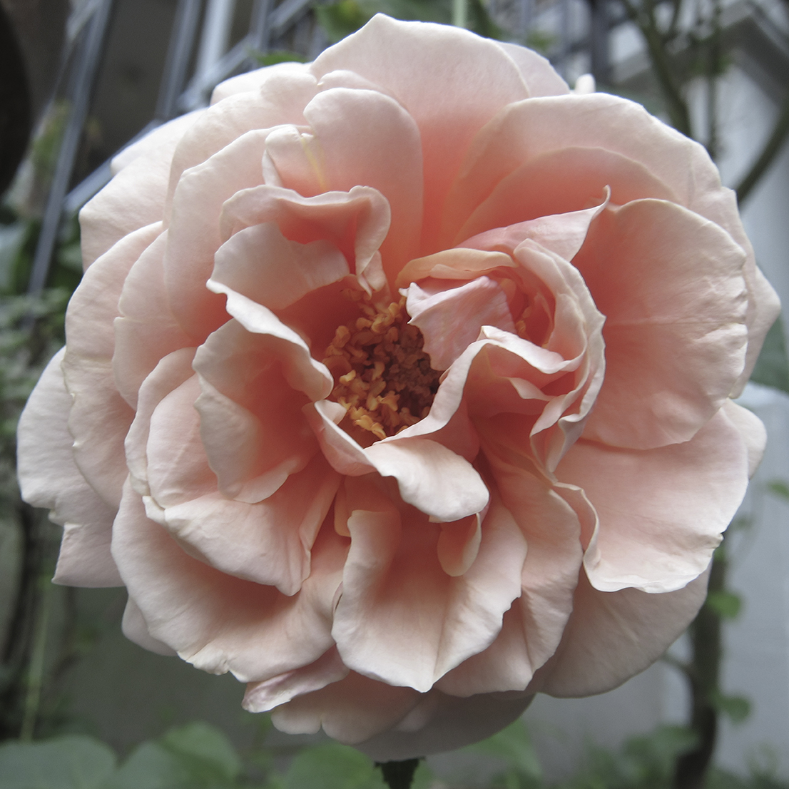 Pedro Dot 1931 Rosa Duquesa de Peñaranda